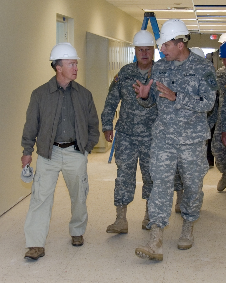 Lt. Col. Perry Sarver (right), Commandant of the Patriot Academy, located at Muscatatuck Urban Training Center in Butlerville, shows Indiana Gov. Mitch Daniels, along with Indiana National Guard Adjutant Gen. R. Martin Umbarger, the Academy facilities still under reconstruction. Daniels was at Muscatatuck to check on progress of the facility and to speak to local civic leaders.